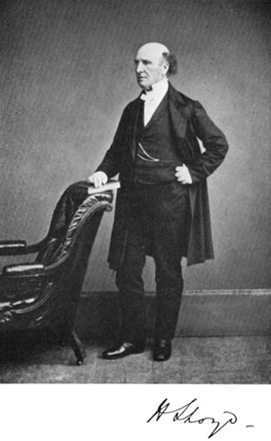 Humphrey Lloyd (circa 1800 date QS:P,+1800-00-00T00:00:00Z/9,P1480,Q5727902-1881)